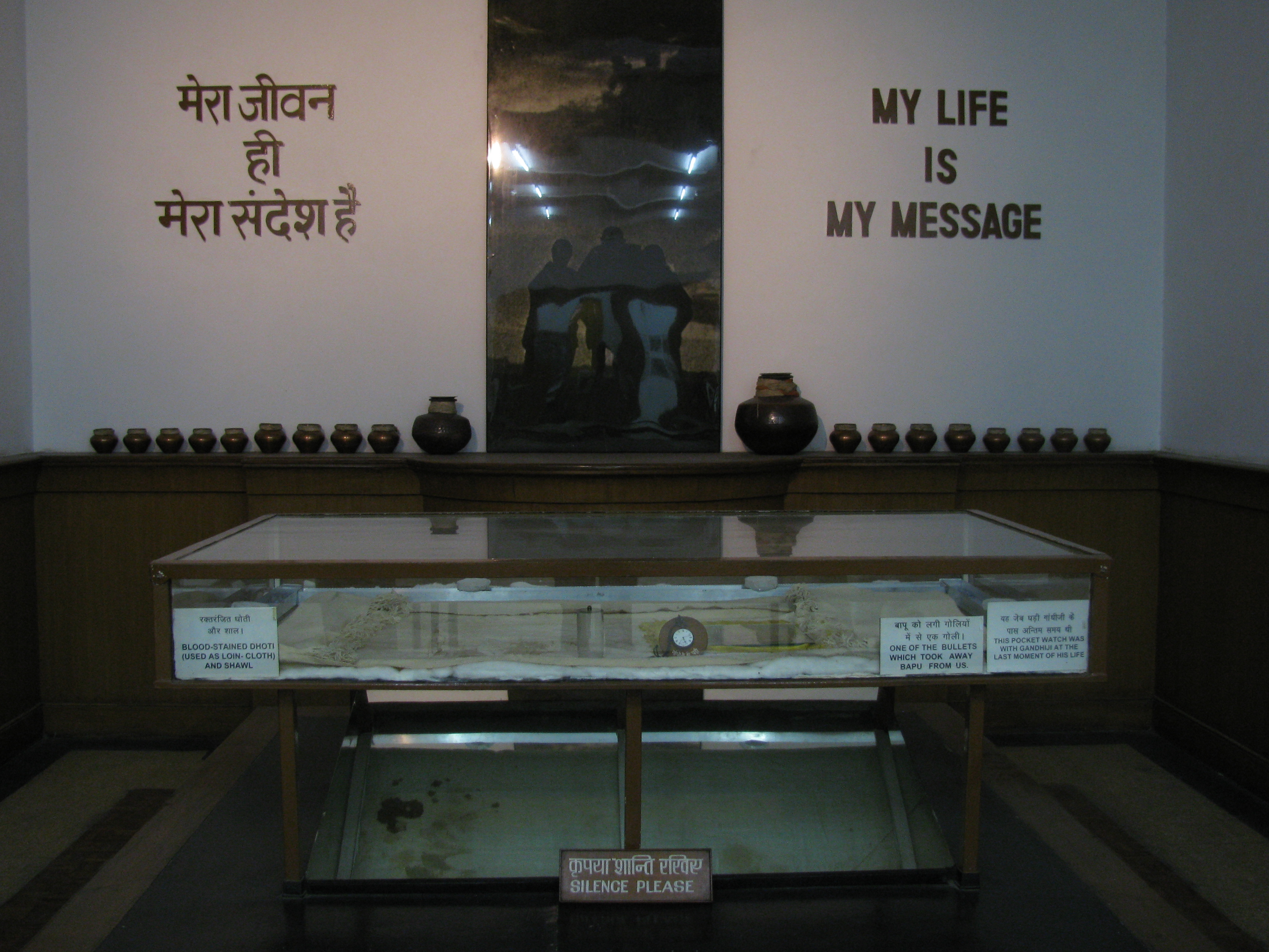 Core of the Gandhi Museum, New Delhi